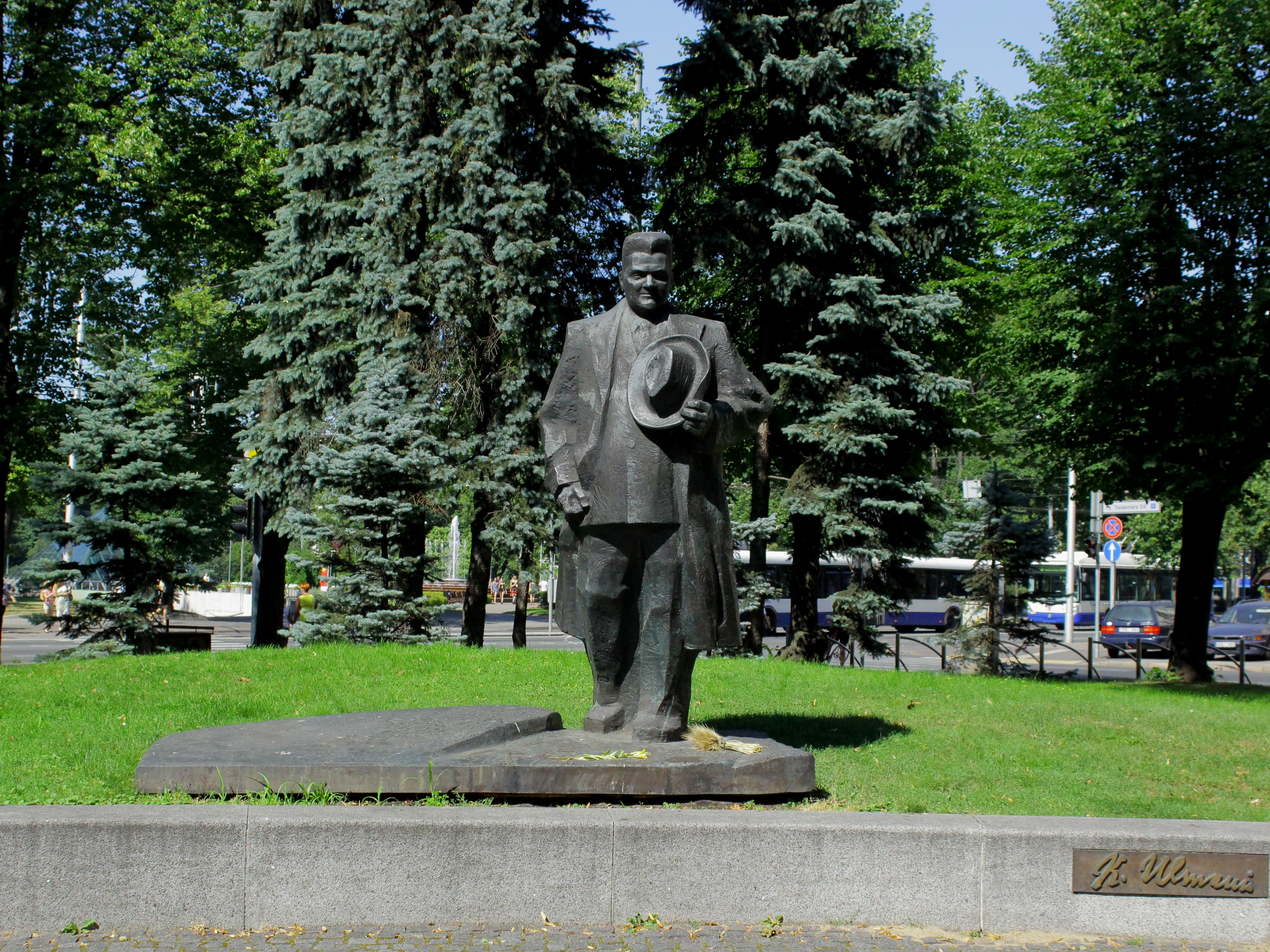 Statue of Kārlis Ulmanis the Latvian politic, the first Latvian Minister-president.